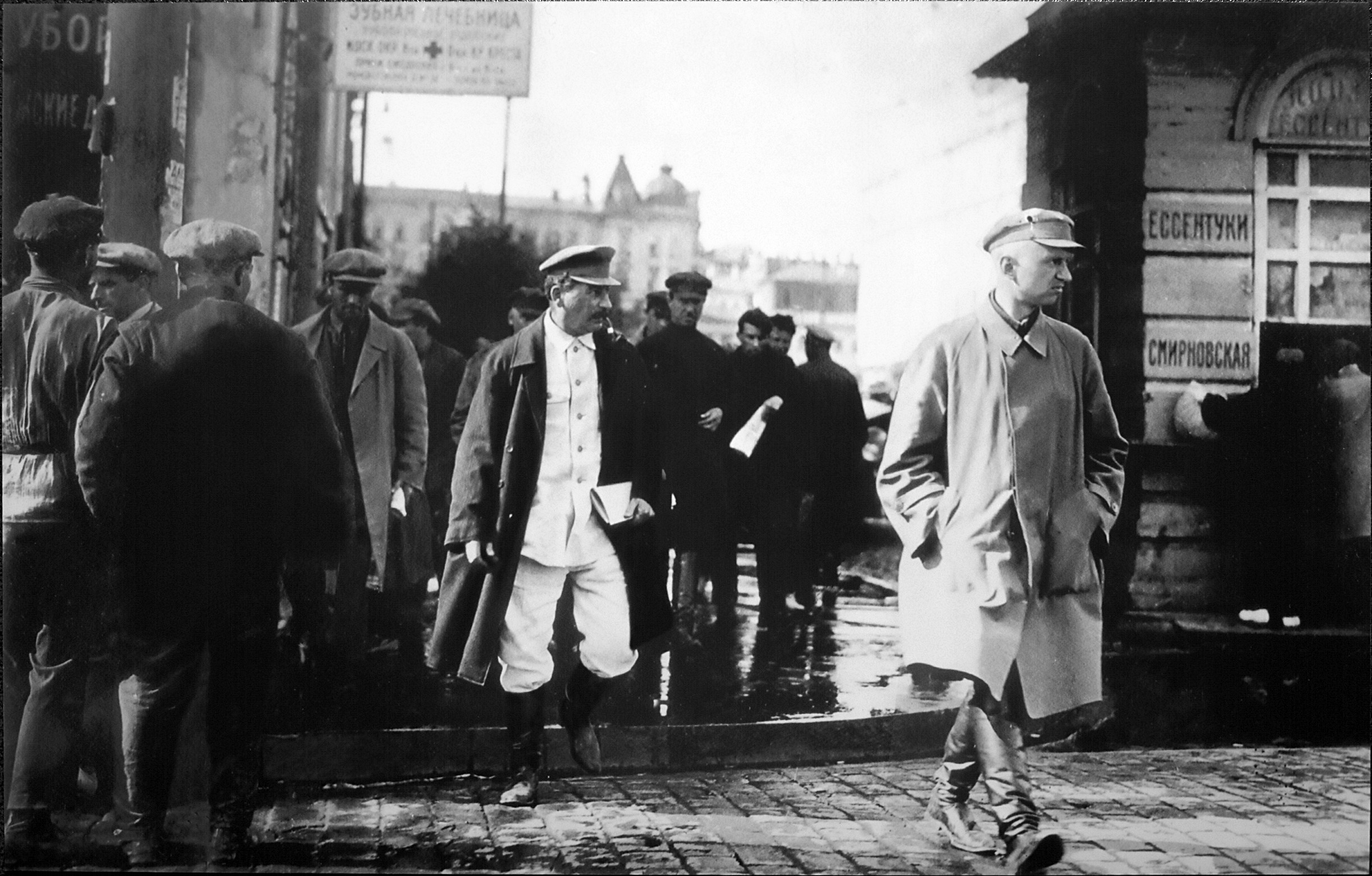 Stalin, accompanied by government security department of the OGPU, Sverdlov square Moscow, 1930